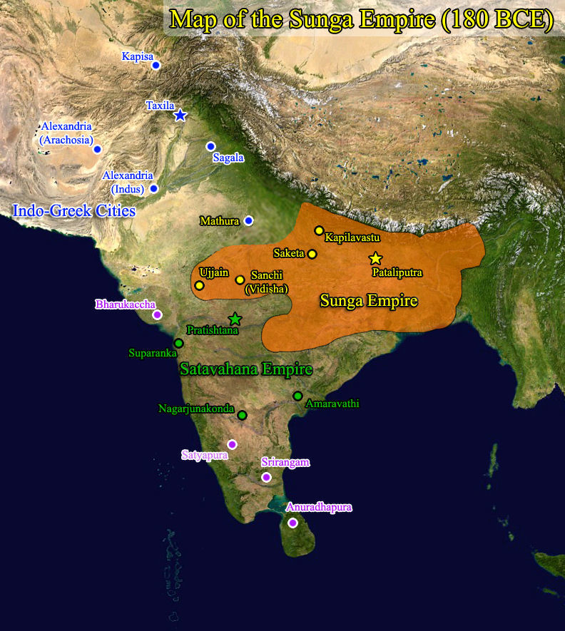 Sunga map